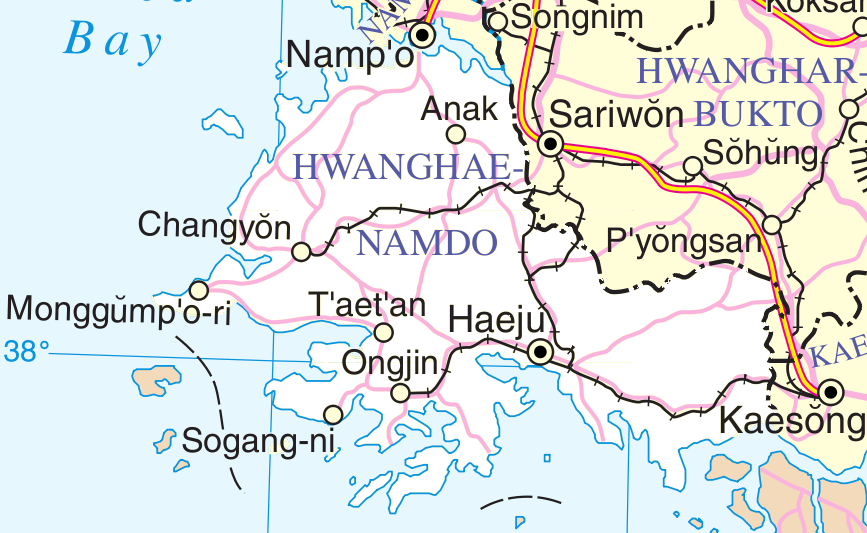 Map of Hwanghae-Namdo, cropped from Un-north-korea.png